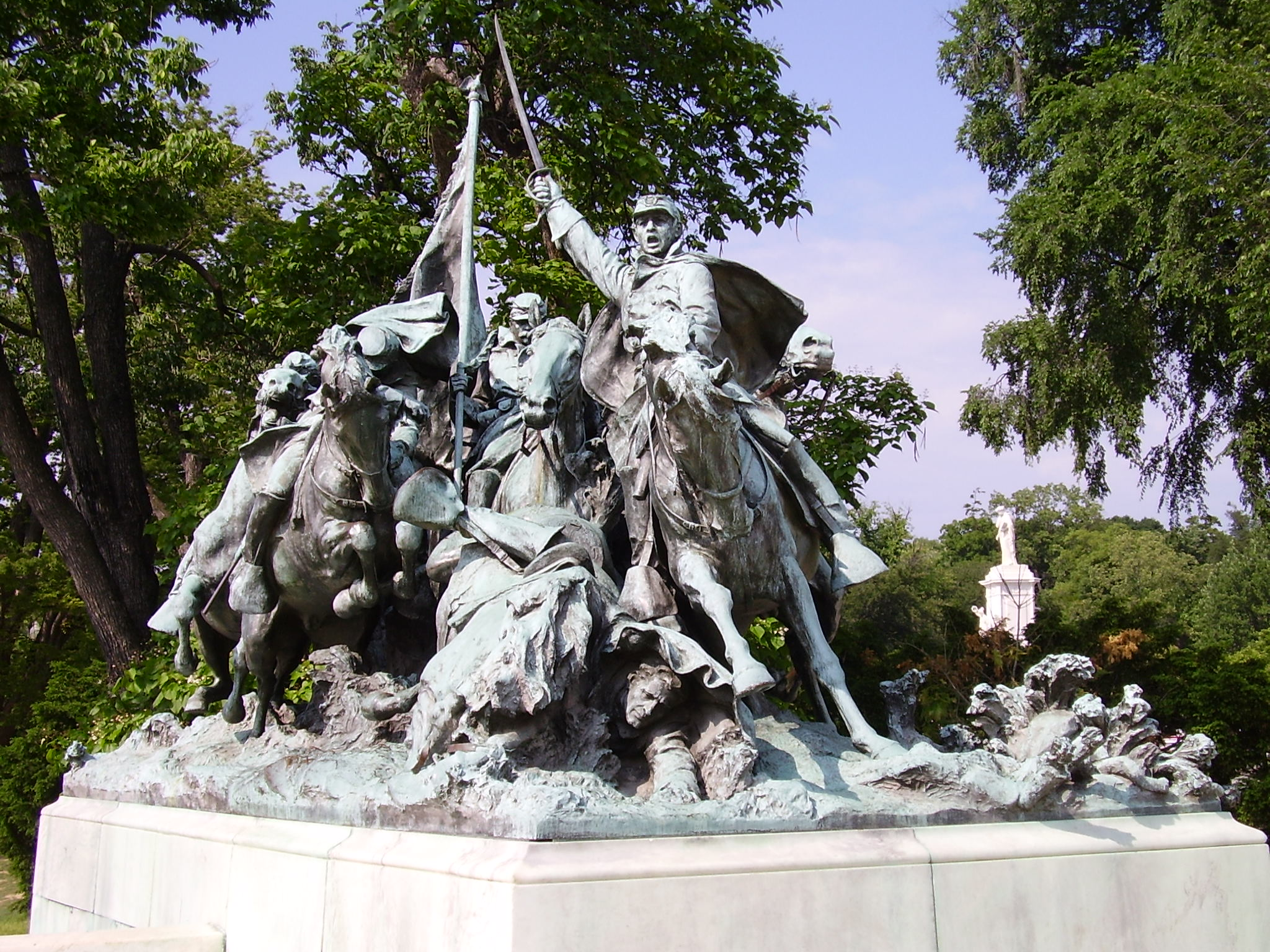 The photo shows the Cavalry group sculpture, which is a part of Ulysses S. Grant Memorial in Washington, DC, located in front of the U.S. Congress.